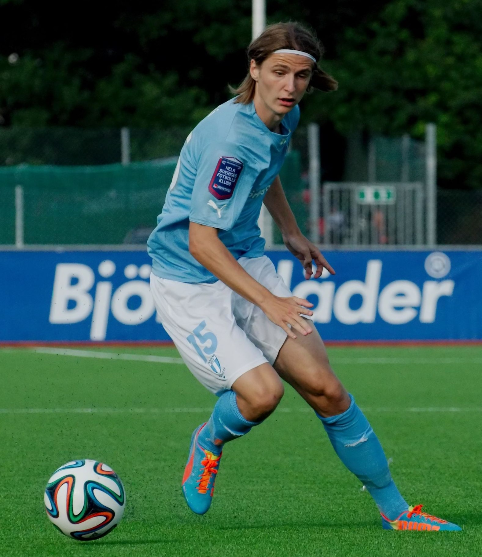 Allsvenskan IF Brommapojkarna-Malmö FF at Grimsta IP